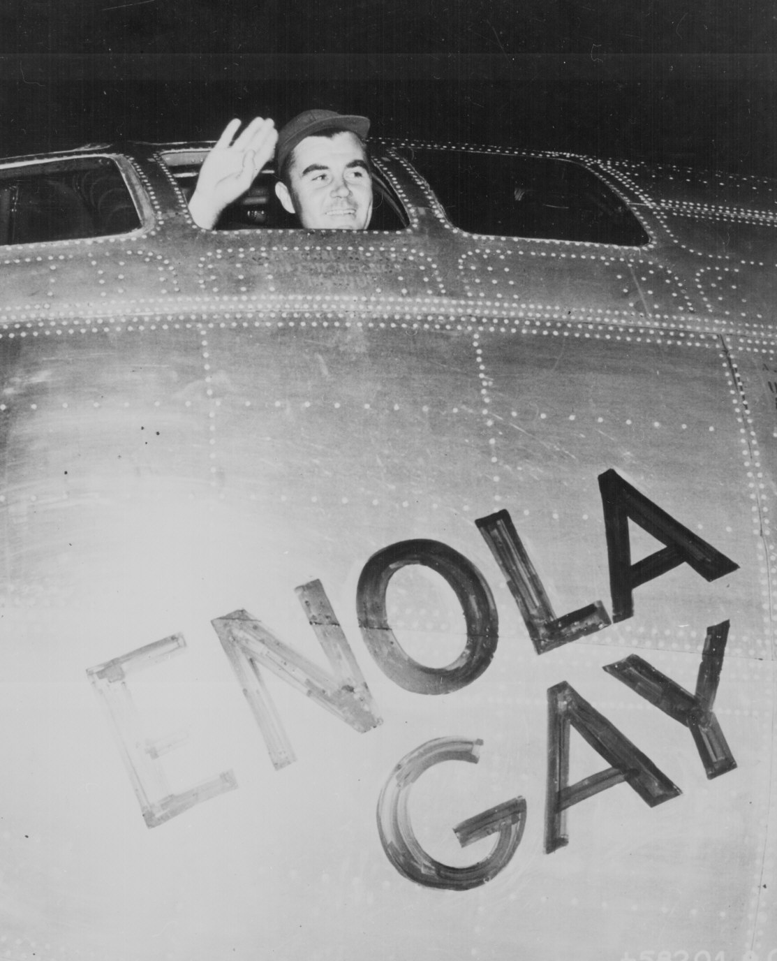 "Col. Paul W. Tibbets, Jr., pilot of the ENOLA GAY, the plane that dropped the atomic bomb on Hiroshima, waves from his cockpit before the takeoff, 6 August 1945." 208-LU-13H-5.